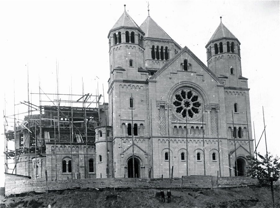 Kirche Herz Jesu in Aachen-Burtscheid, im Bau (1909 / 1910)